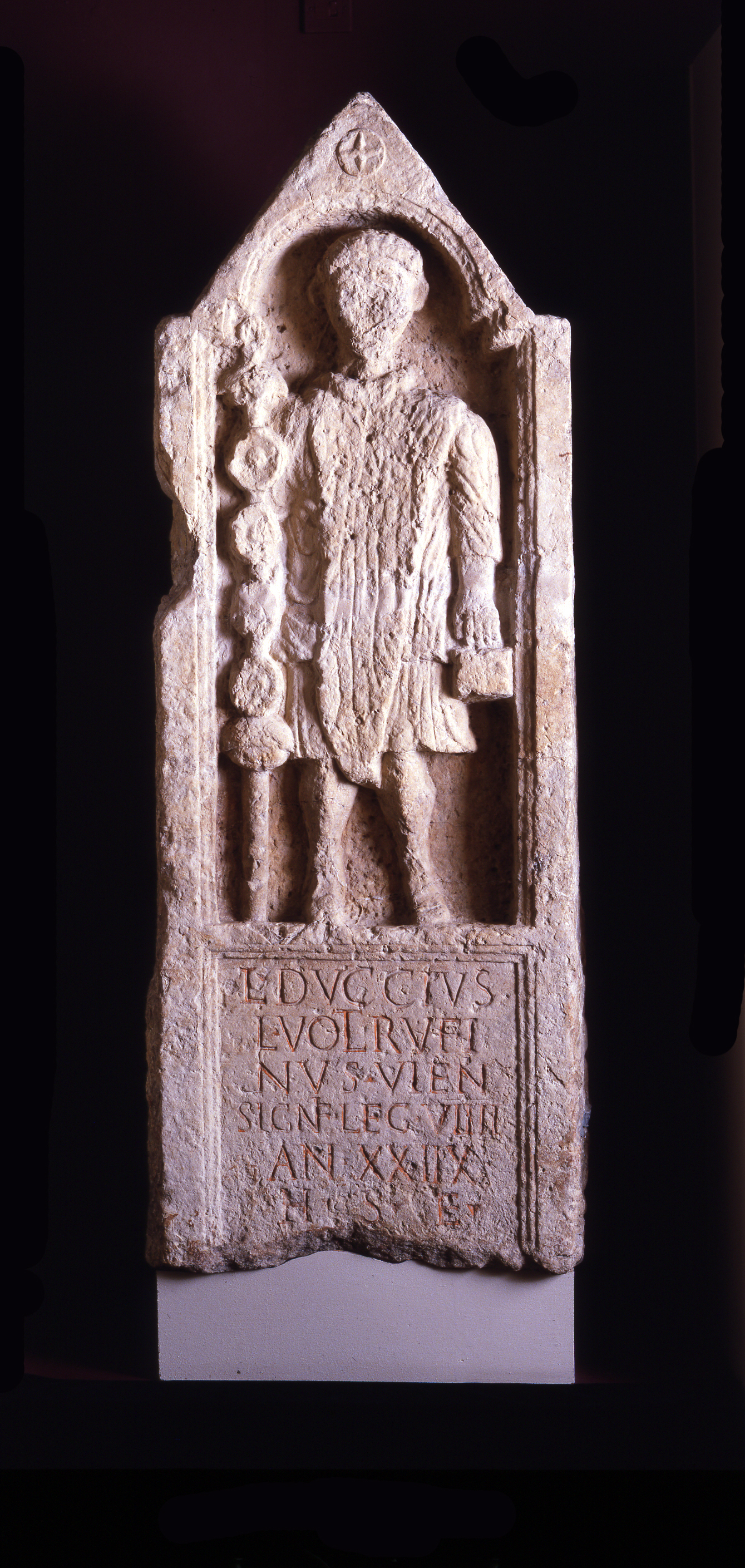 Standard bearer above inscription. Described in Eboracum as 'Tombstone of limestone, 2ft 2ins by 6ft 6ins, by 7ins, with gabeled top, found in 1688, on the site of Holy Trinity Priory, Micklegate. In the apex of the gabel is a small cross in a circle. Below, in a round headed niche Duccius stands holding a maniple standard in his right hand and a case of writing tablets in his left. He is in military undress uniform. CIL VII 243 = RIB 1, 643: L(ucius) Duccius / L(uci filius) Volt(inia) Rufi/nus Vien(na) / signif(er) leg(ionis) VIIII / an(norum) XXIIXX / h(ic) s(itus) e(st)